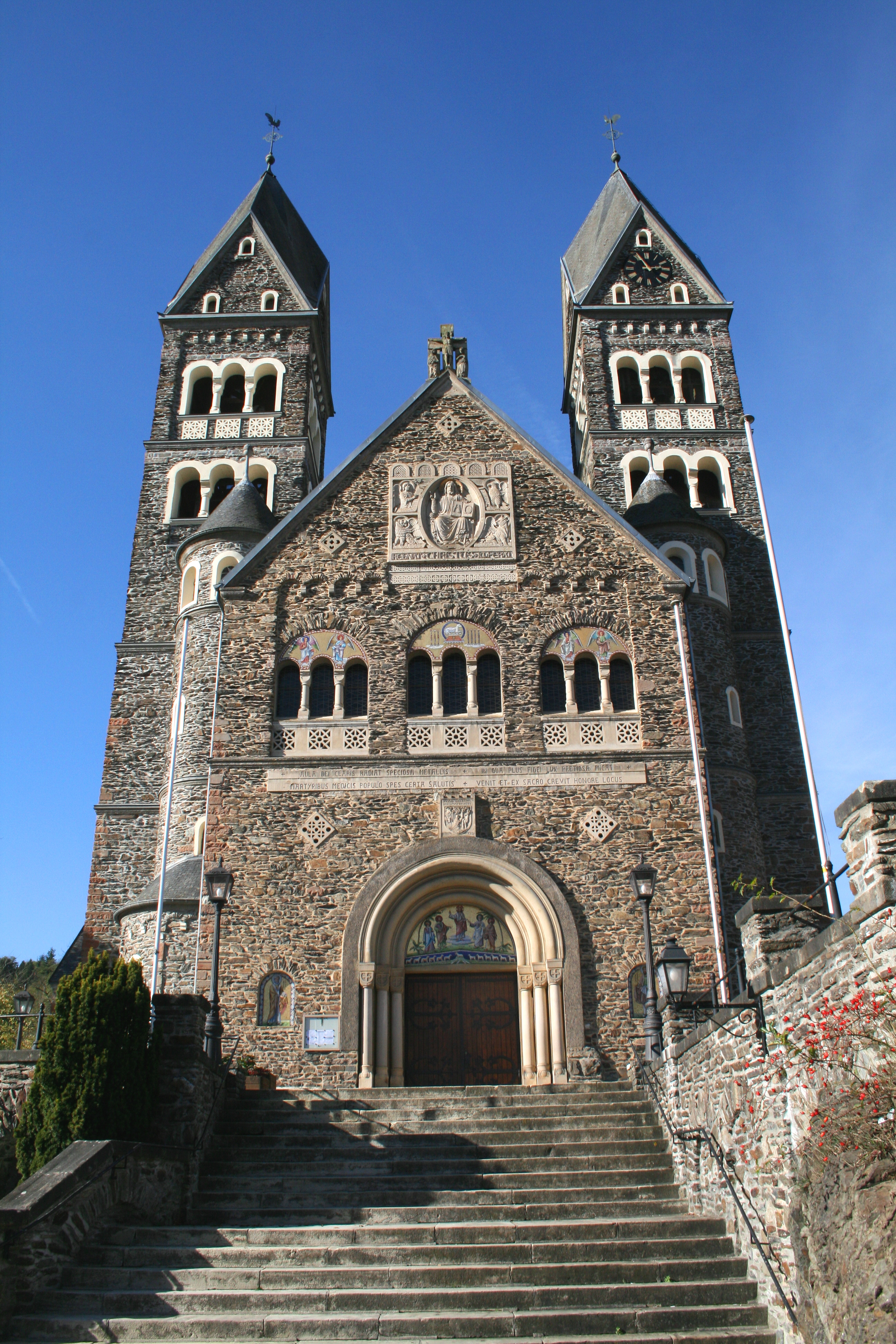 Clervaux (Luxembourg) - Façade, front porch, small turrets and spires of the rectory Church of Saints Cosma and Damian. (1910-1912).